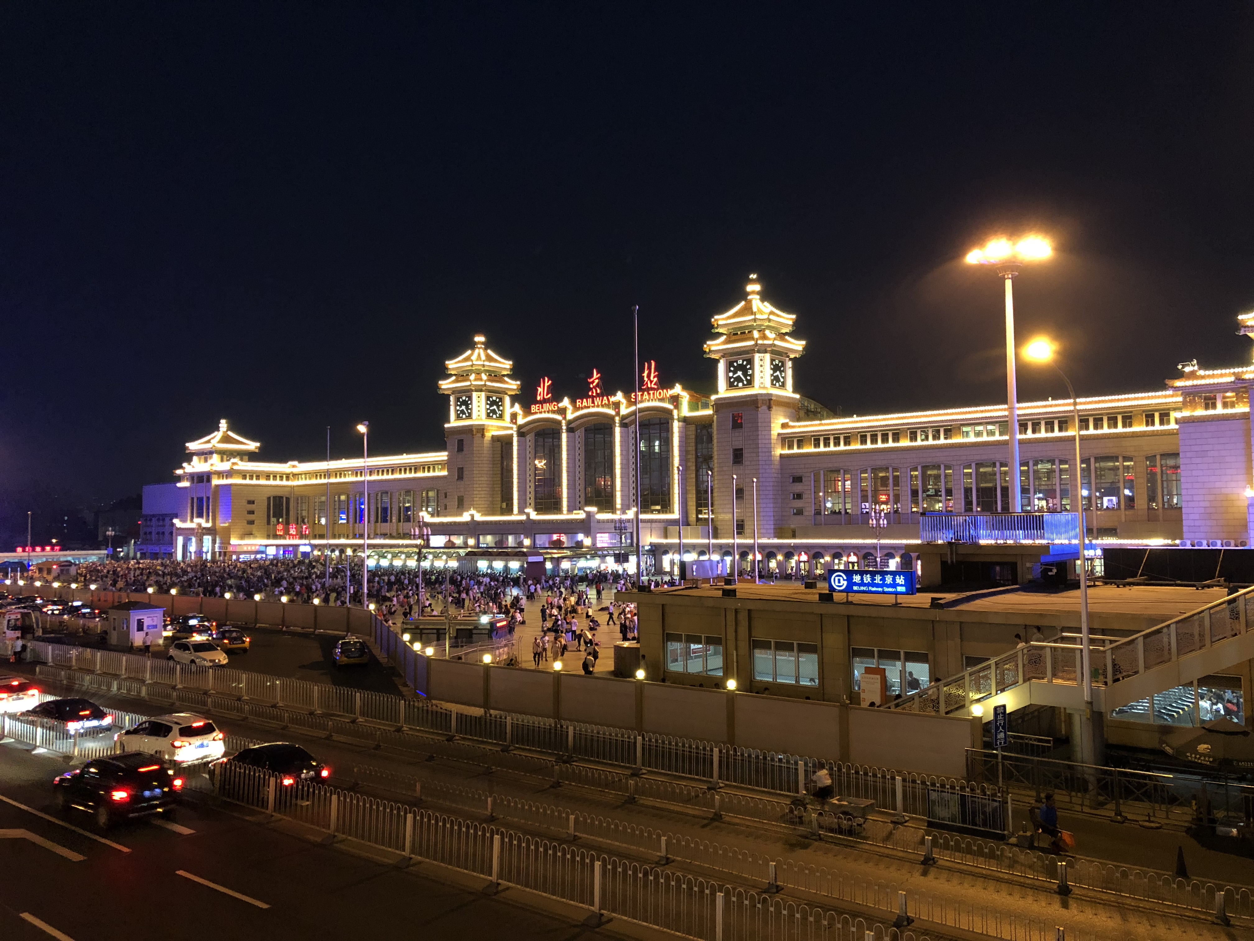 Beijing Railway Station at night